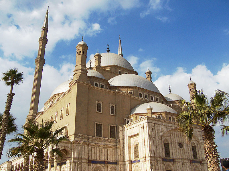 مسجد محمد علي باشا هحغبقحمخ8بيقخ7يخ7ي